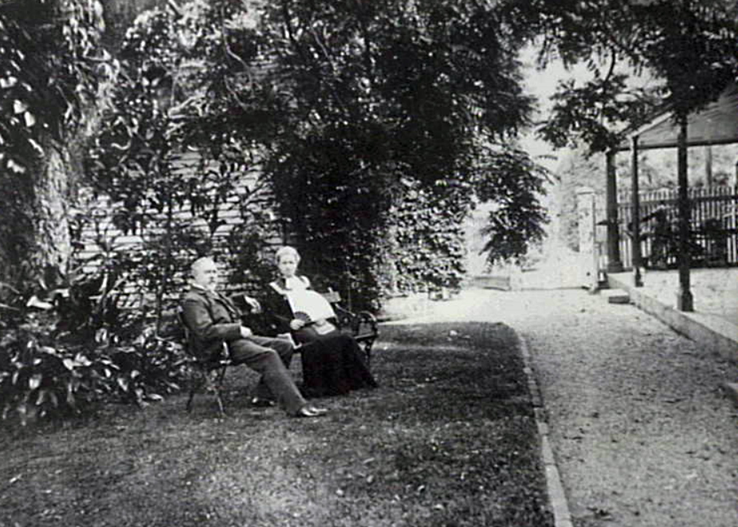 Sir John Hay and Lady Jessie Hay at Coolangatta Estate on the Shoalhaven River circa 1900